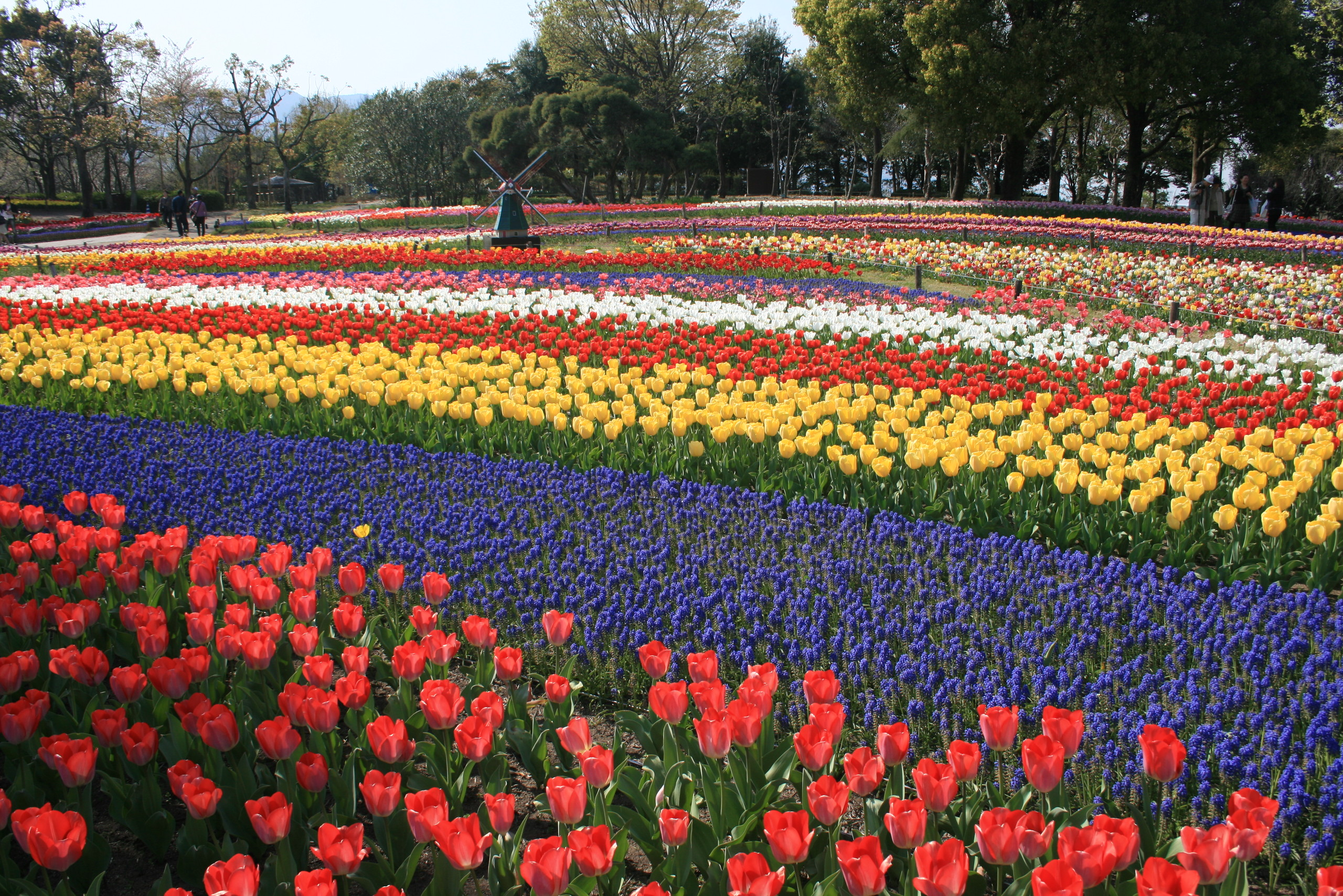 Tulip in Kiso Sansen National Government Park